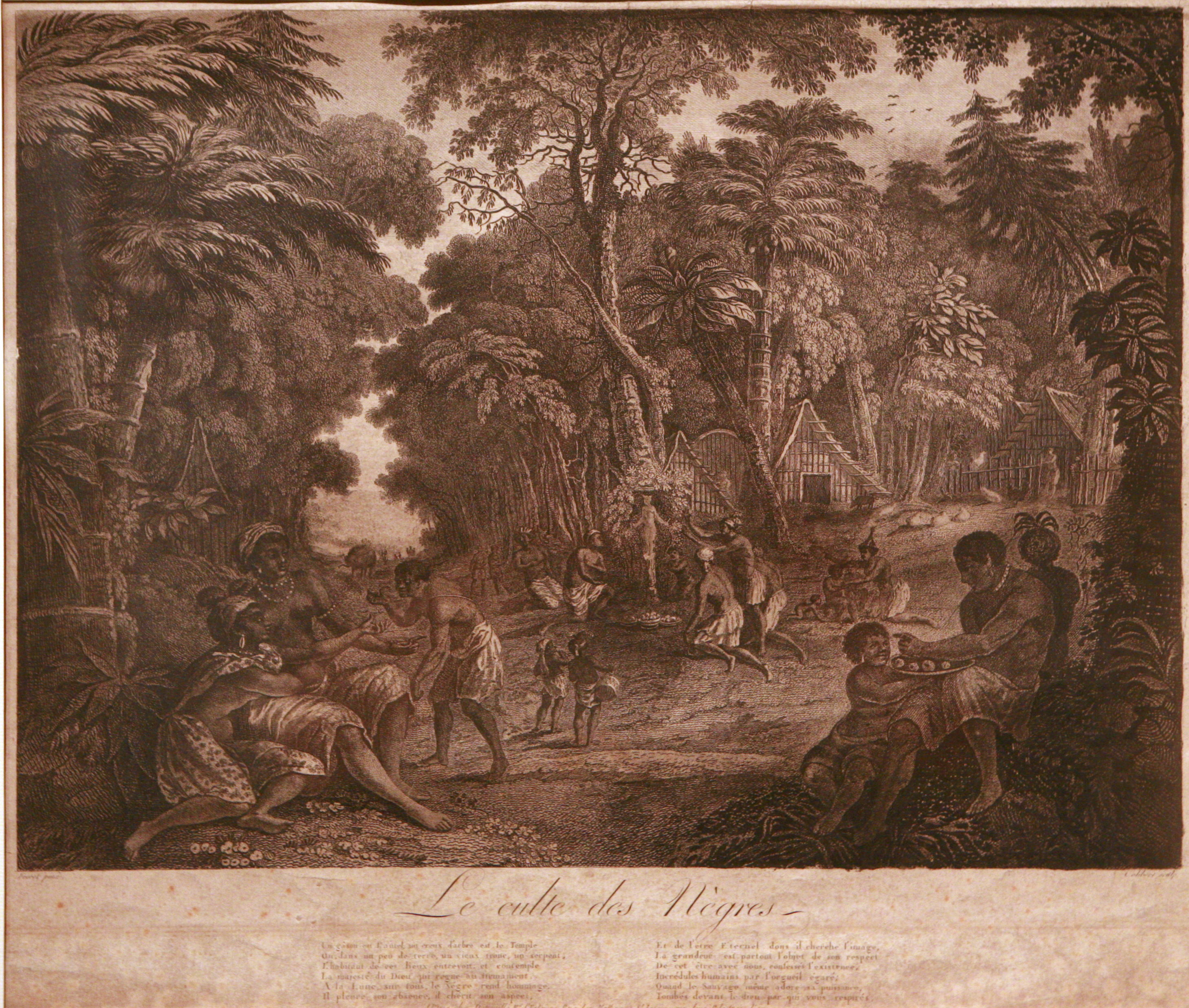 Religion of Negroes, by Nicolas Colibert (1750 - after 1806) engraving after Amédée Fréret, Paris, 1795, made to celebrate the first abolition of slavery on 4 February 1794 (16 Pluviôse an II) AF 6747